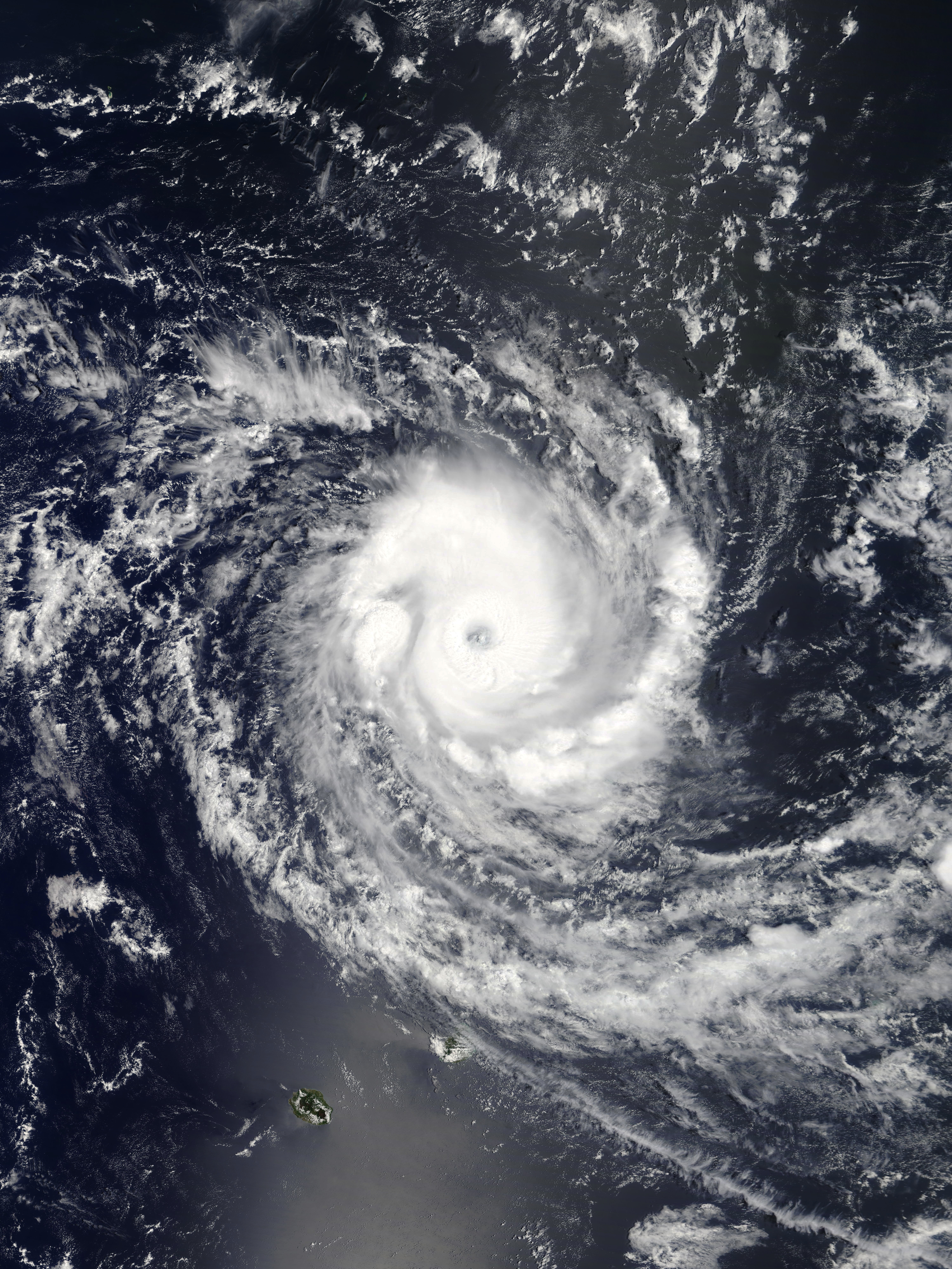 Intense Tropical Cyclone Cilida reaching its peak intensity on 21 December 2018.